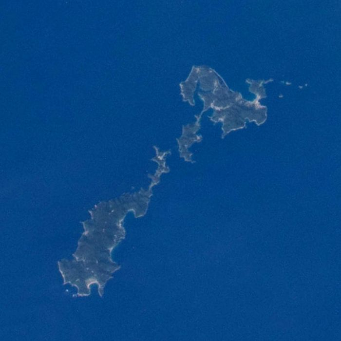 Koshikijima Islands, Kagoshima prefecture, Japan.